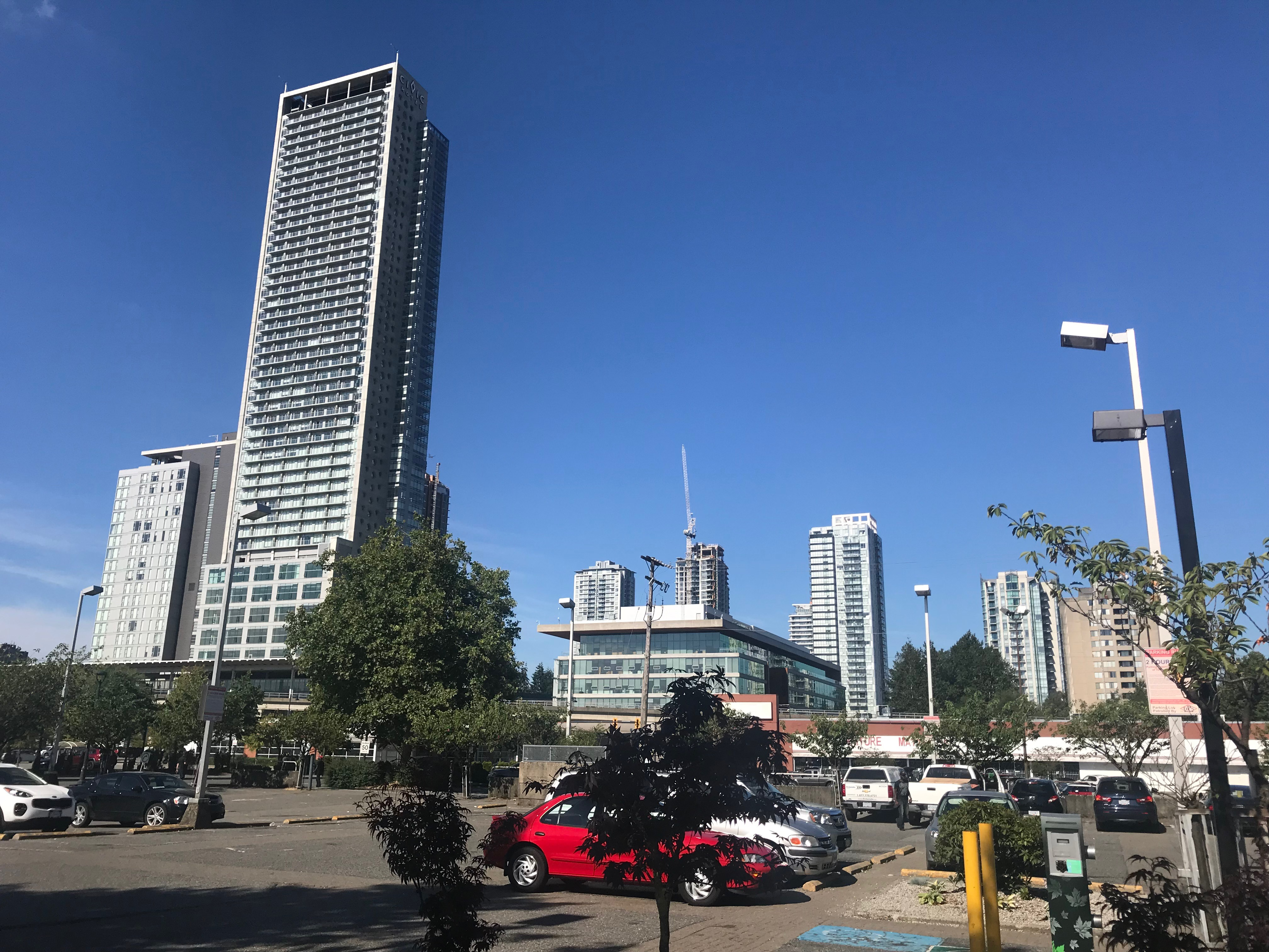 Whalley Surrey city centre downtown core